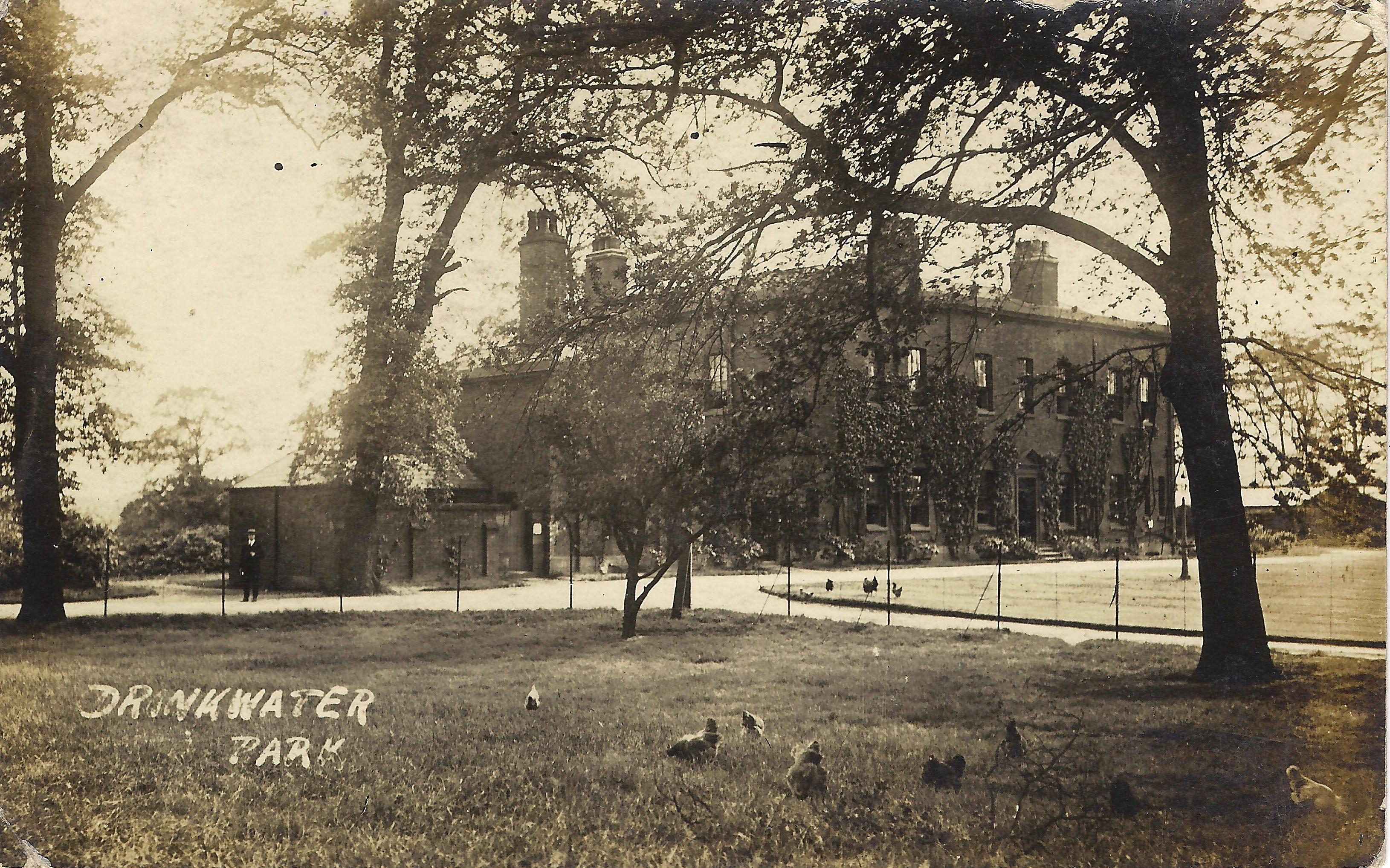 A photograph of Irwell House taken from a postcard sent in 1921